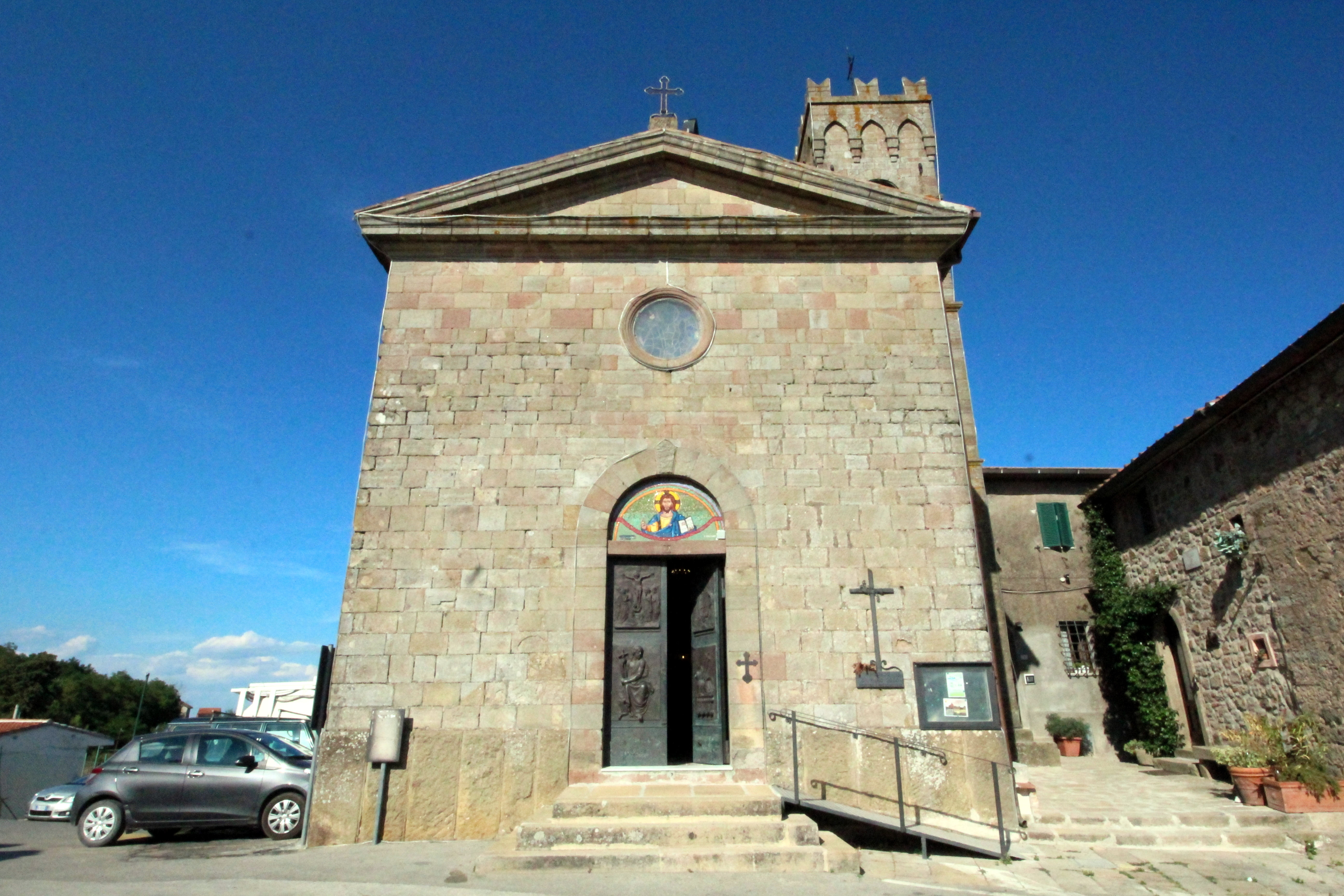 Church San Michele Arcangelo, Sassofortino, hamlet of Roccastrada, Province of Grosseto, Tuscany, Italy